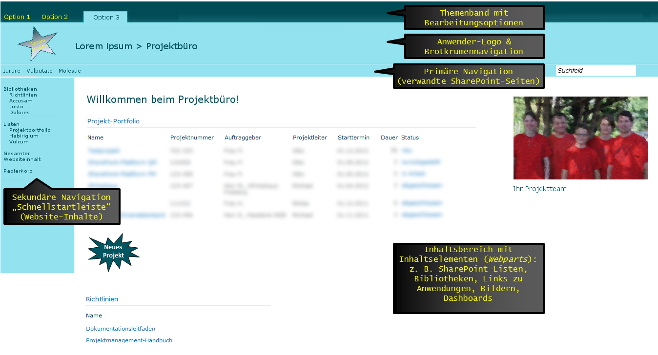 Scheme of a typical SharePoint 2010 team page. This is a schematic drawing made by myself, not a hardcopy from a real SharePoint page